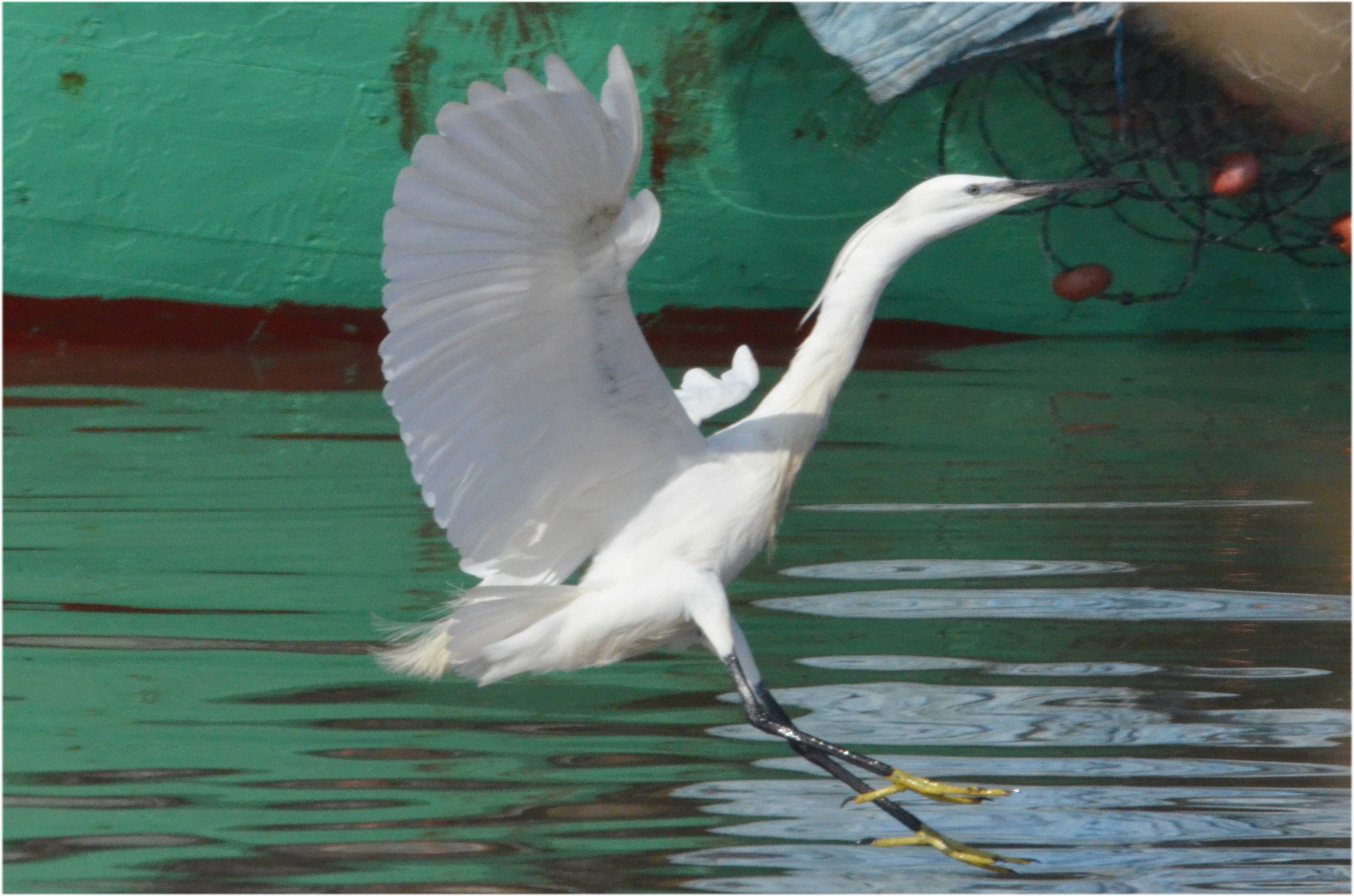 Little Egret